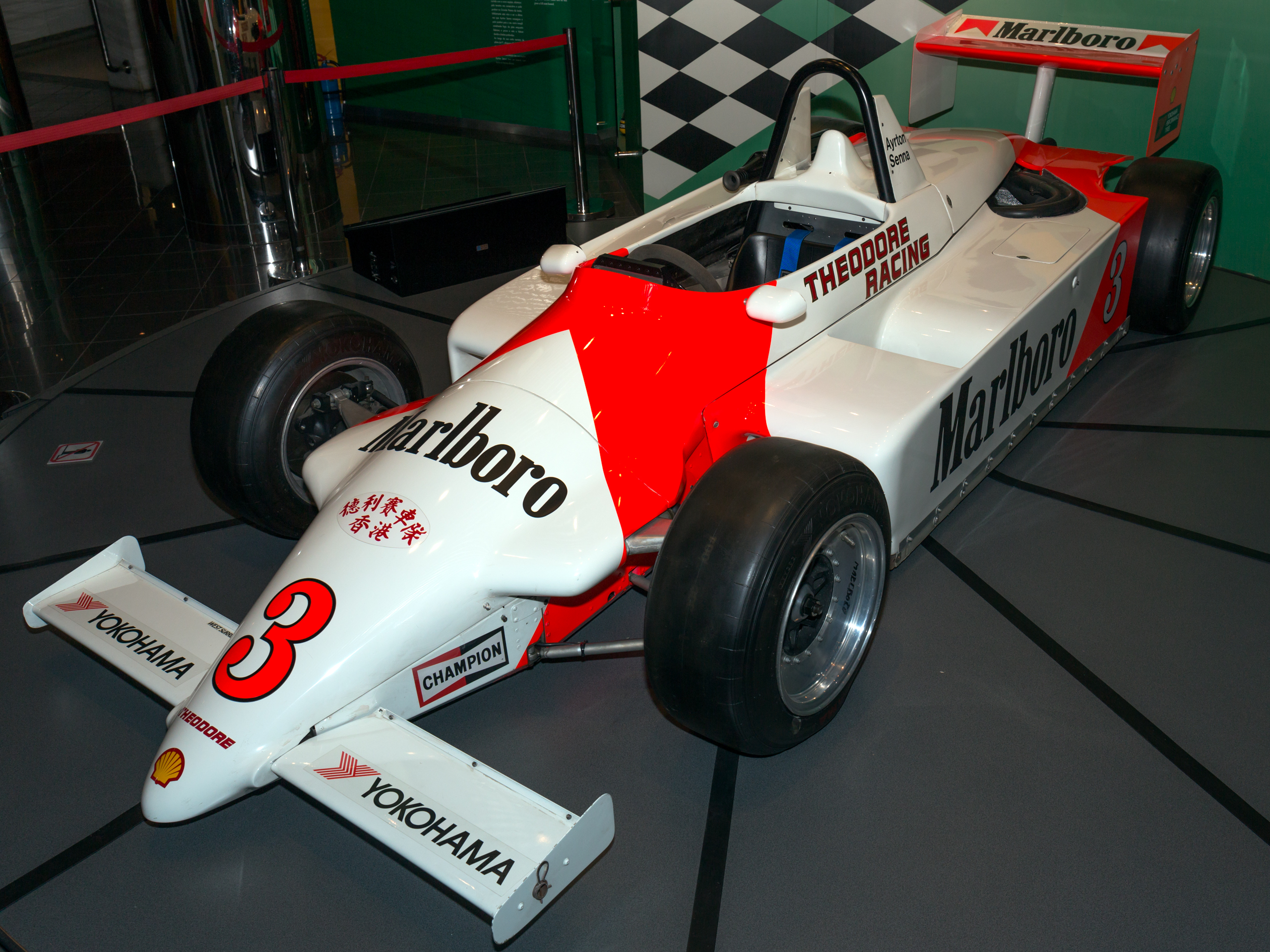 Ralt RT3 of Ayrton Senna (Theodore Racing / West Surrey Racing), 1983 Macau Grand Prix.